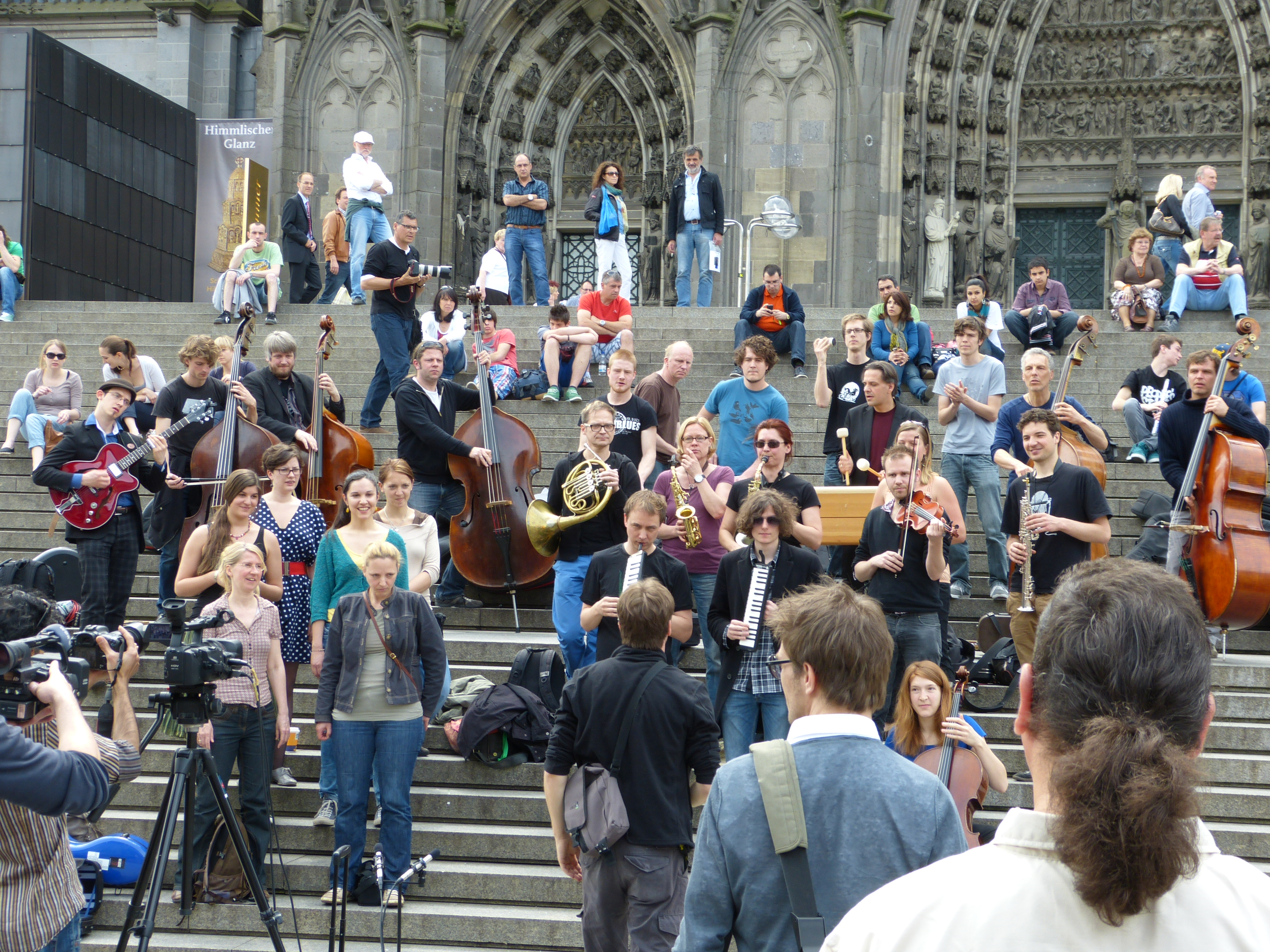 First International Jazz Day, April 30th, 2012 - Flash mob of Cologne Jazz Musicians in front of the Cathedral of Cologne